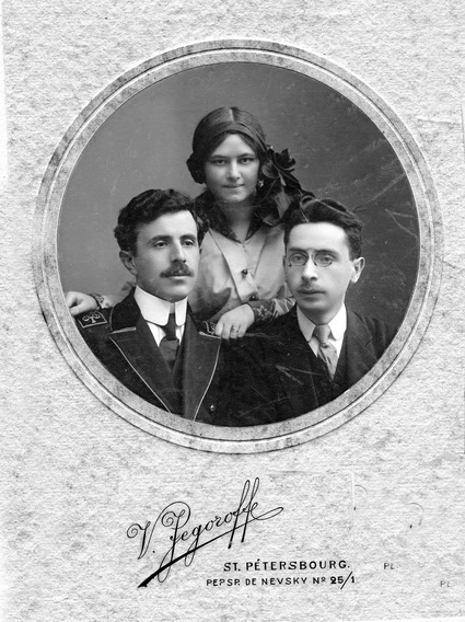 Tzila Feinberg together with Zeev Finkelstein (before they got engaged) and M. Belitzarkovsky. The picture was taken in 1914 in St. Petersburg, Back than, she still did not know which of the two men would marry.